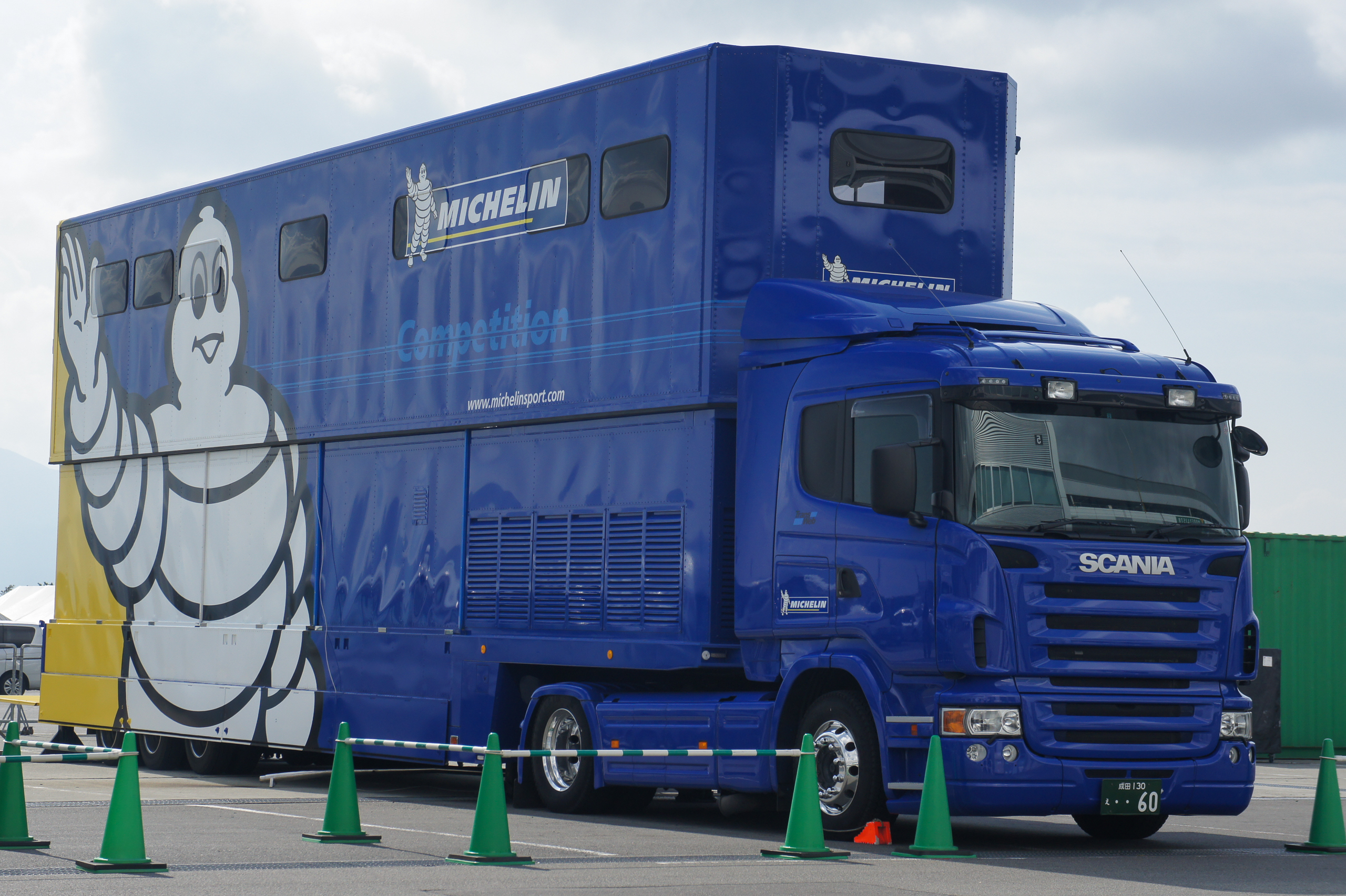 FIA World Endurance Championship 2012 Rd.7 6 Hours of Fuji: Audi Sport Team Joest practices a pit stop.